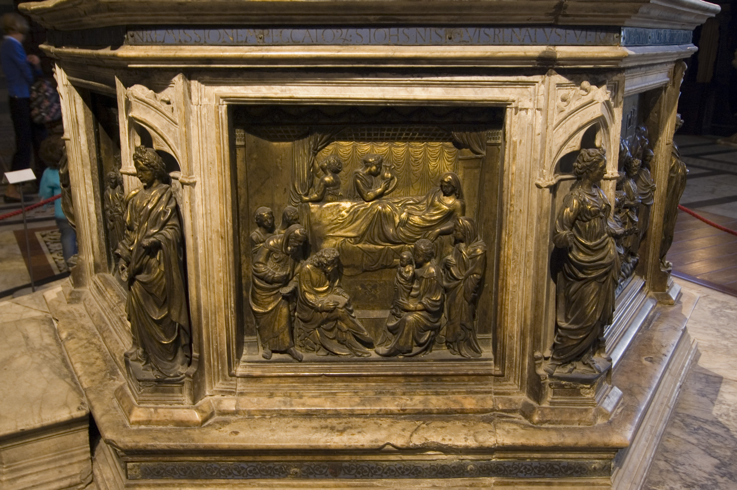 see above